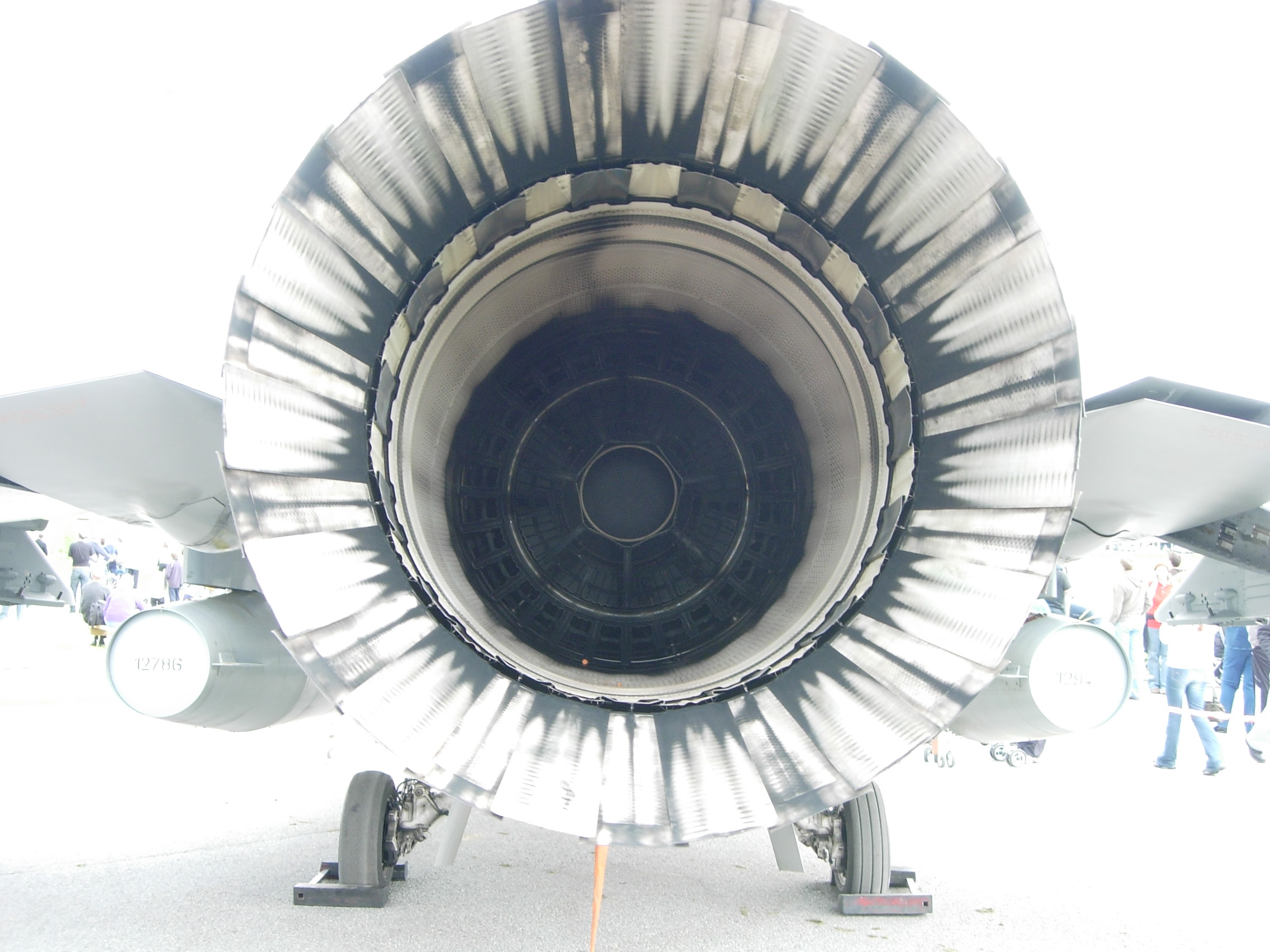 The engine on a norwegian F-16 Fighting Falcon in an airshow in Bodø, Norway